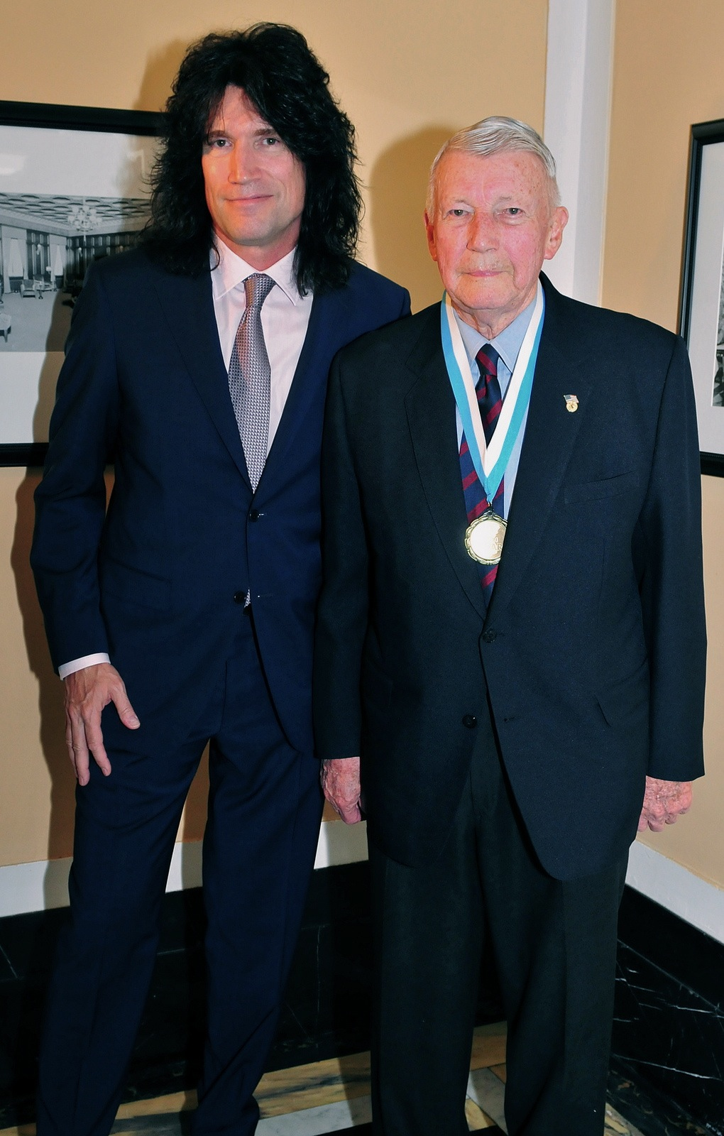 Tommy Thayer, lead guitarist for the rock band KISS, shares a moment with his father, 91-year old Brig. Gen. (Oregon State Defense Force) James B. Thayer at the 2013 All-Star Salute to the Oregon Military, held at the Governor Hotel in Portland, Oregon, April 20. The event was part of a two-year, $6.5 million capital campaign fundraiser for the Oregon Military Museum at Camp Withycombe, in Clackamas, Oregon. The museum will be named in honor of James Thayer, a World War II veteran who helped liberate a concentration camp in the waning days of WWII. (Photo by Sgt. Cory Grogan, Oregon National Guard 115 Mobile Public Affairs Detachment.)